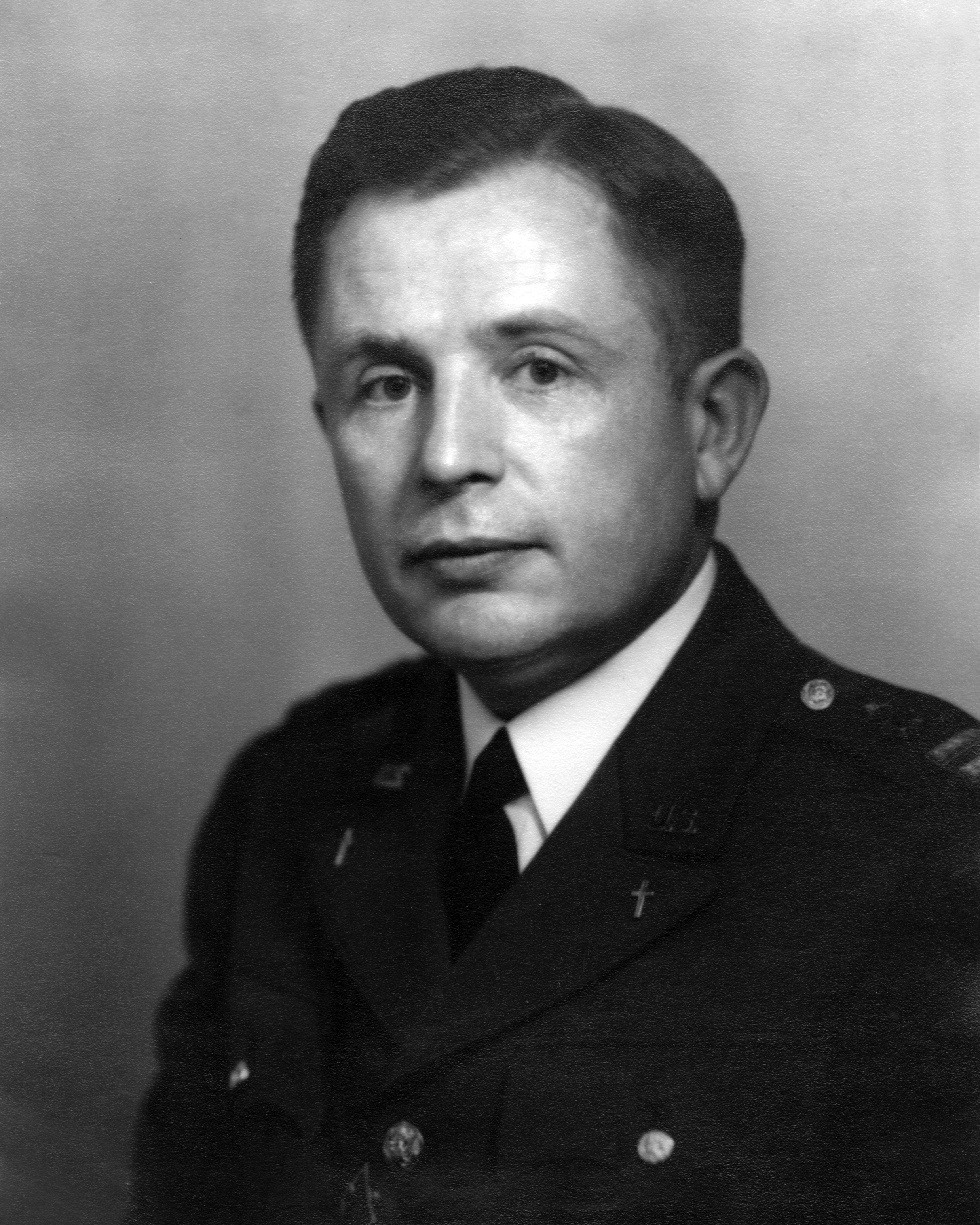 Patrick Ryan, Chief of Chaplains of the U.S. Army